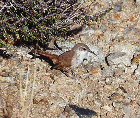 Awaiting identification.